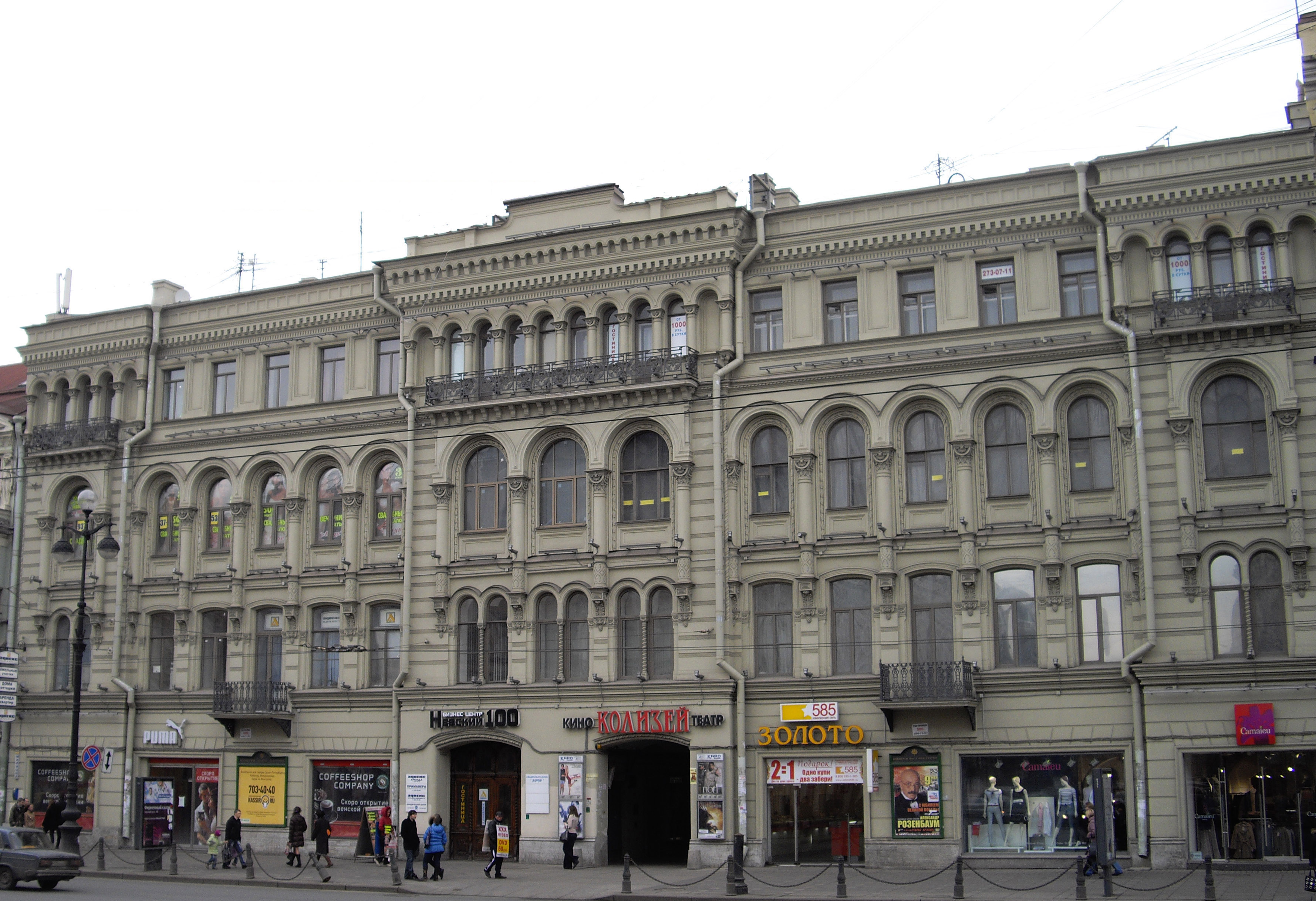 100, Nevsky Prospekt, cinema "Kolizey" ("Coliseum") building, former Lopatin's house (built in 1907)